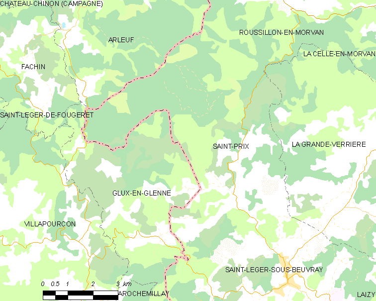 Map of French municipality